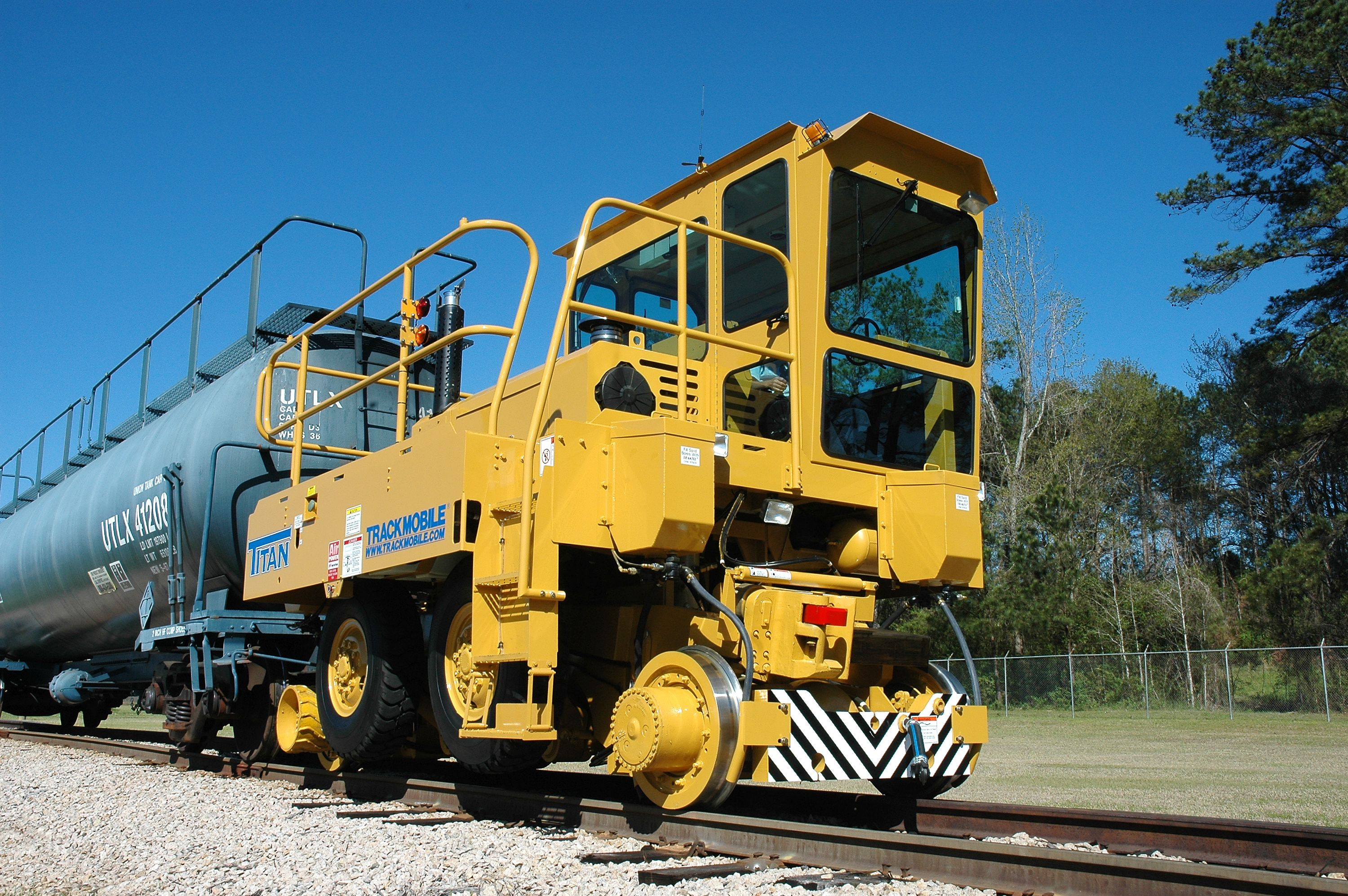 TrackMobile Titan